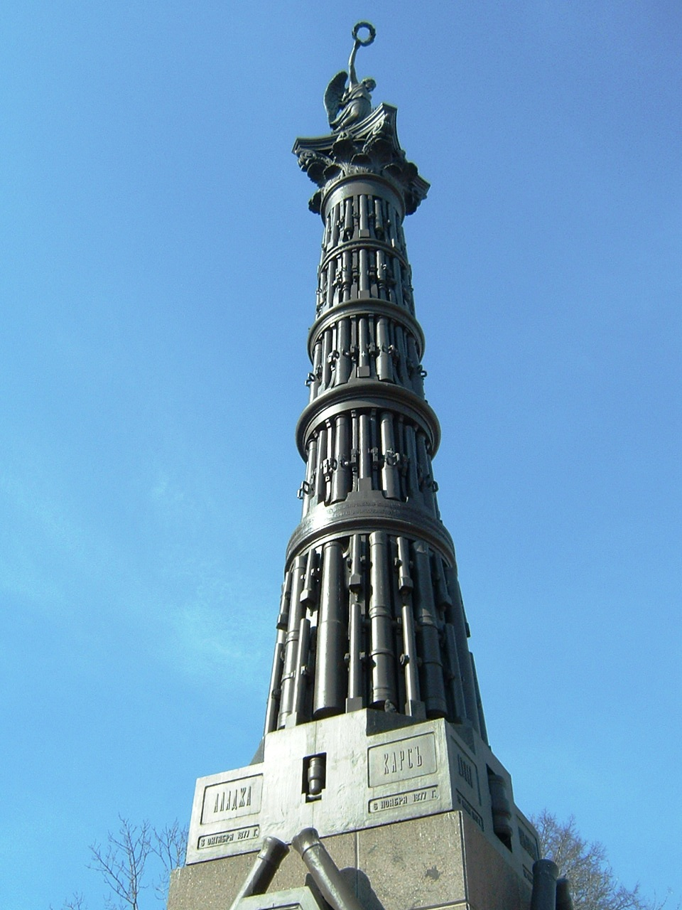 Russo-Turkish War memorial column near Trinity Cathedral, St. Petersburg